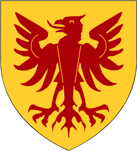 Coat of arms of the House of Zähringen